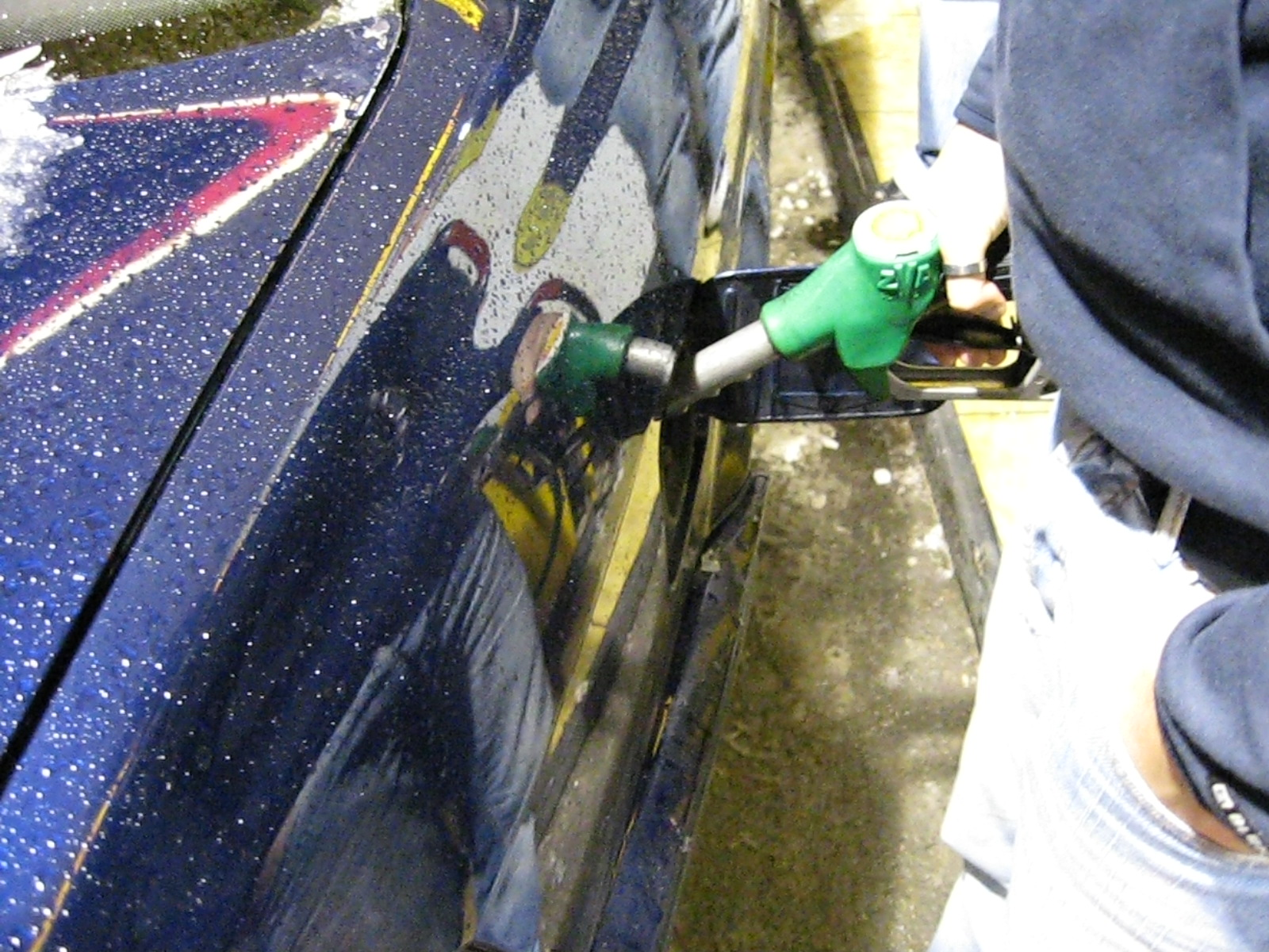 A man filling petrol on his car. Photo:Michael Shanks